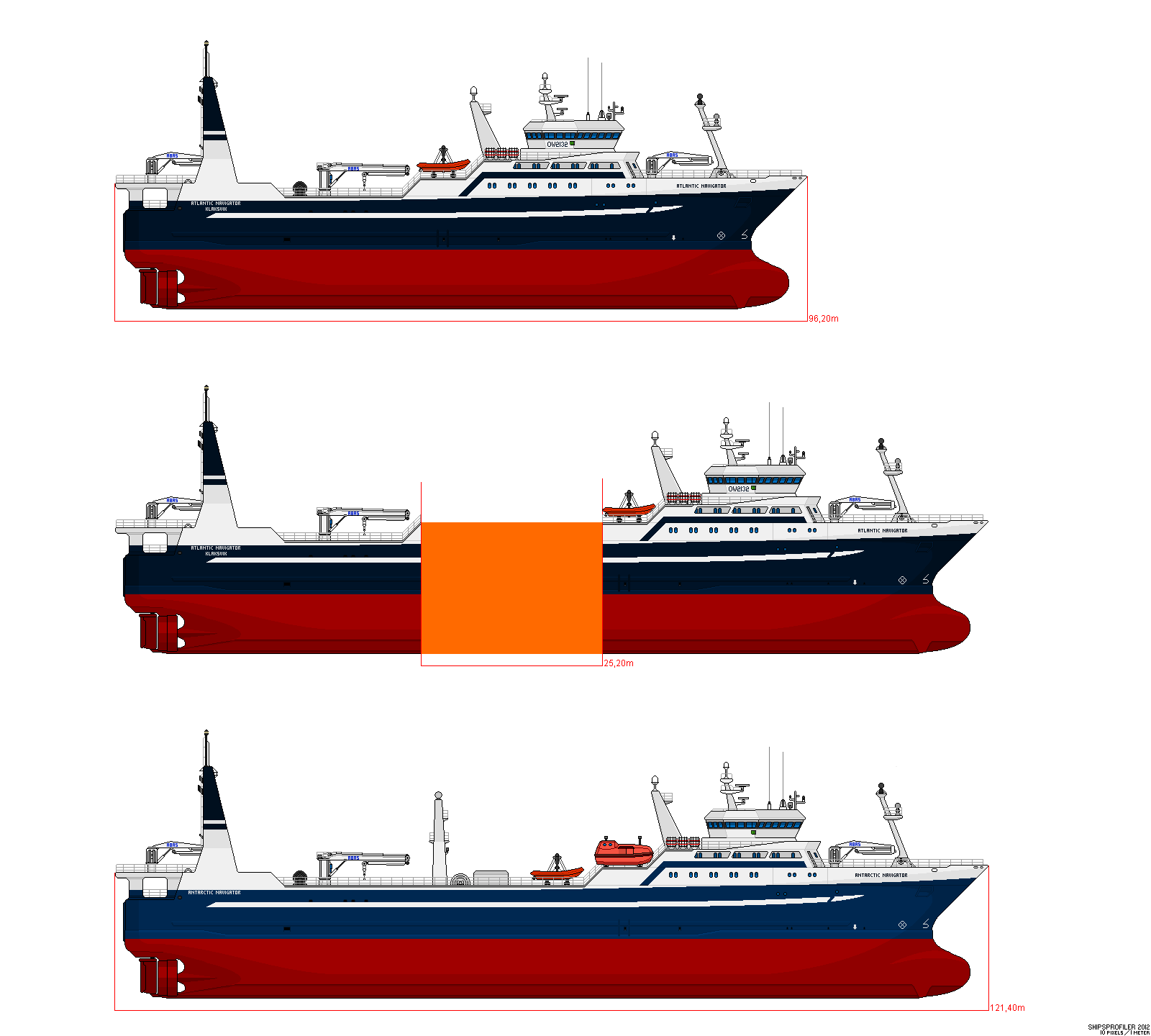 FV Antarctic Navigator Mega Trawler Conversion